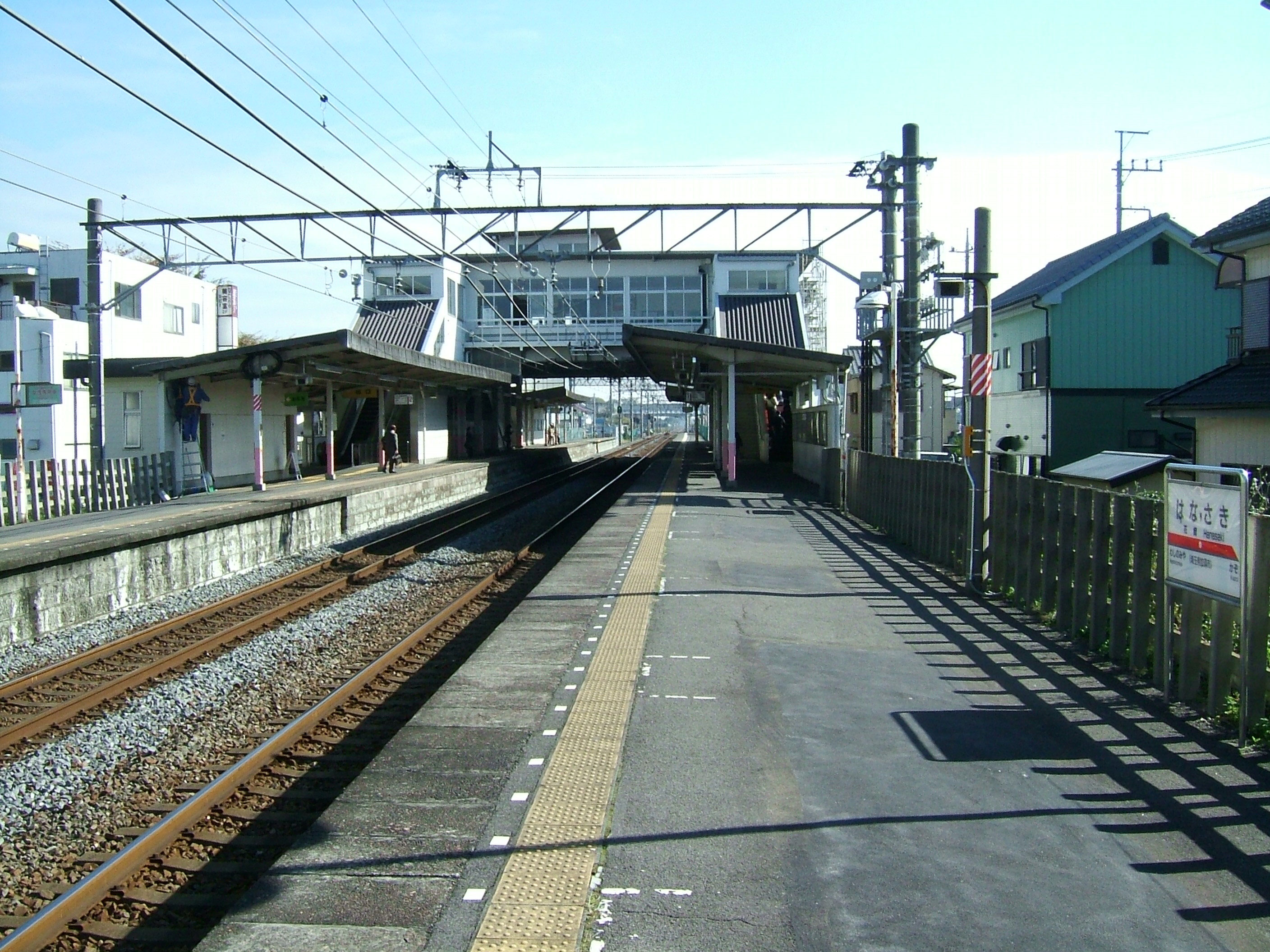 Hanasaki Station platform (Tōbu Railway Isesaki Line)